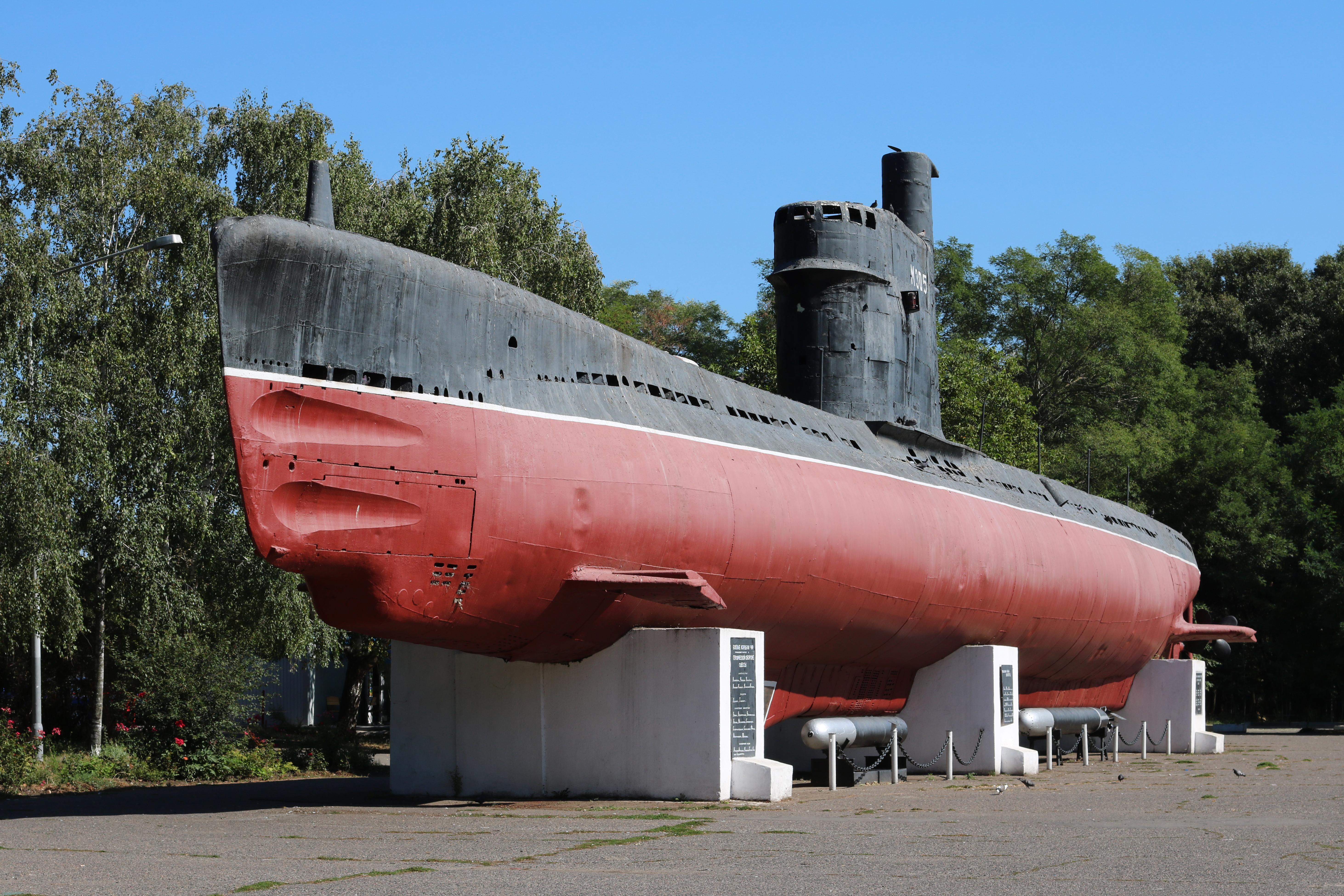 Soviet submarine M-296 of Quebec-class as a memorial in Odessa under name M-305.